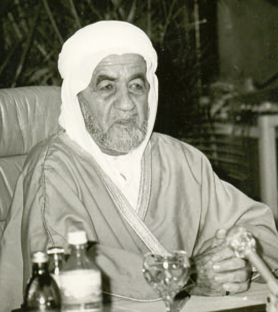 shaikh abdullah ibraheem alansari